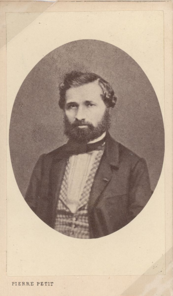 Photo of the composer Adolphe Charles Adam (1803-1856).